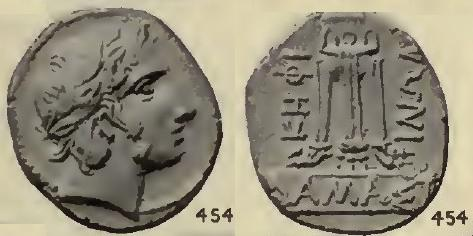 Greek coins and their parent cities (1902) Author: Ward, John, 1832-1912; Hill, George Francis, Sir, 1867-1948 Subject: Coins, Greek; Numismatics, Greek; Greece -- Description, geography; Italy -- Description and travel; Turkey -- Description and travel Publisher: London : Murray Possible copyright status: NOT_IN_COPYRIGHT Language: English Call number: AKB-0671 Digitizing sponsor: MSN Book contributor: Robarts - University of Toronto Collection: toronto Scanfactors: 7